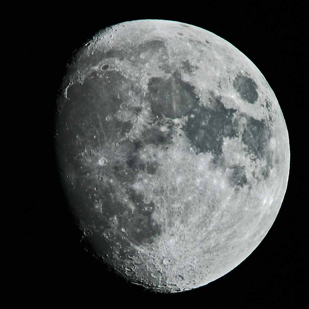 Moon from Morro Bay, CA